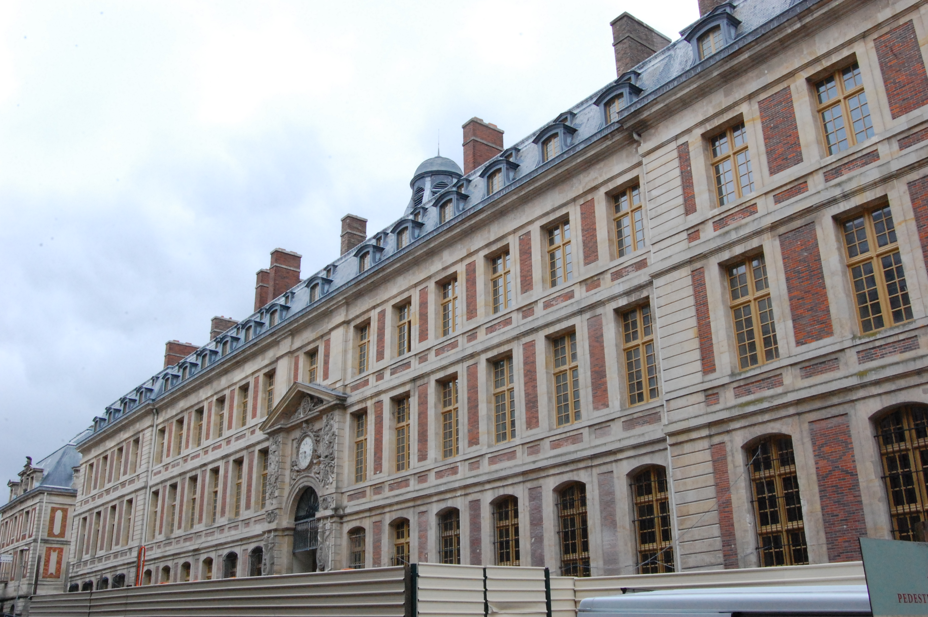 The Grand commun of the Château de Versailles, from the rue de l'Indépendance américaine